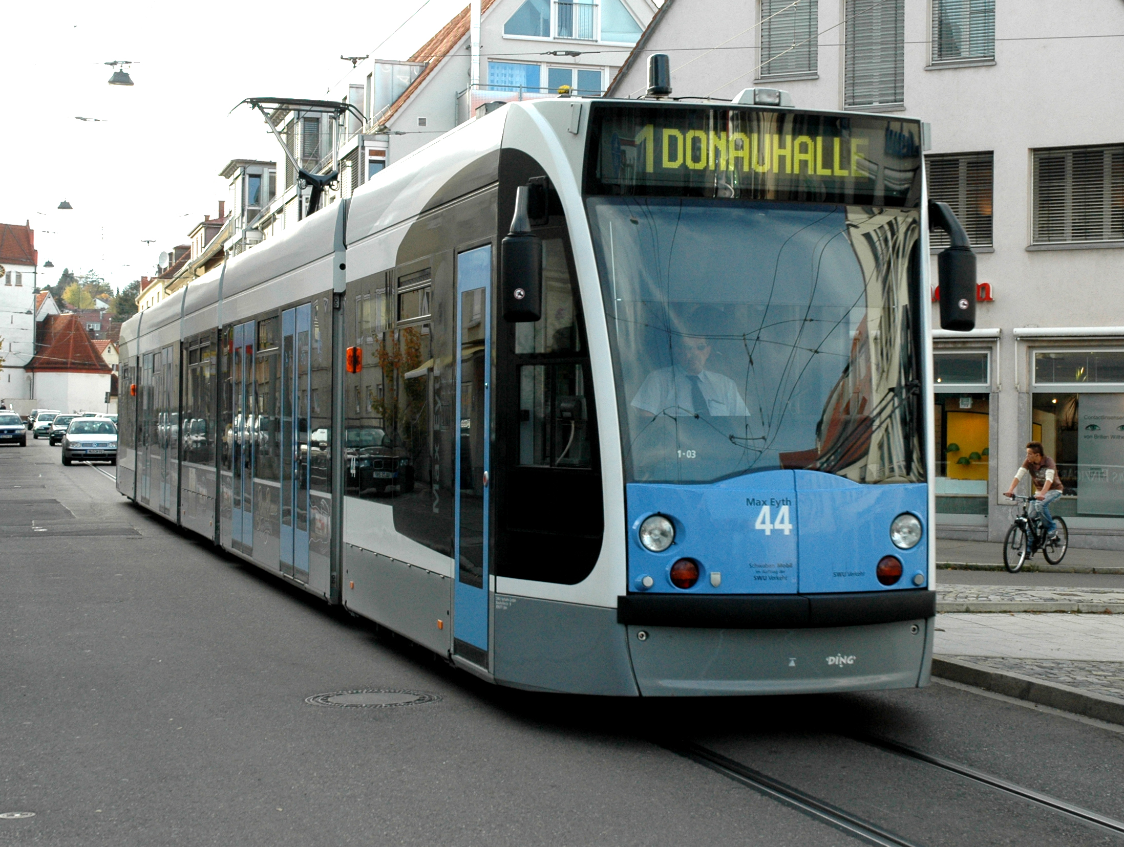 Siemens Combino tram (#44) in Ulm, Germany. Stadtwerke Ulm (SWU) operator.